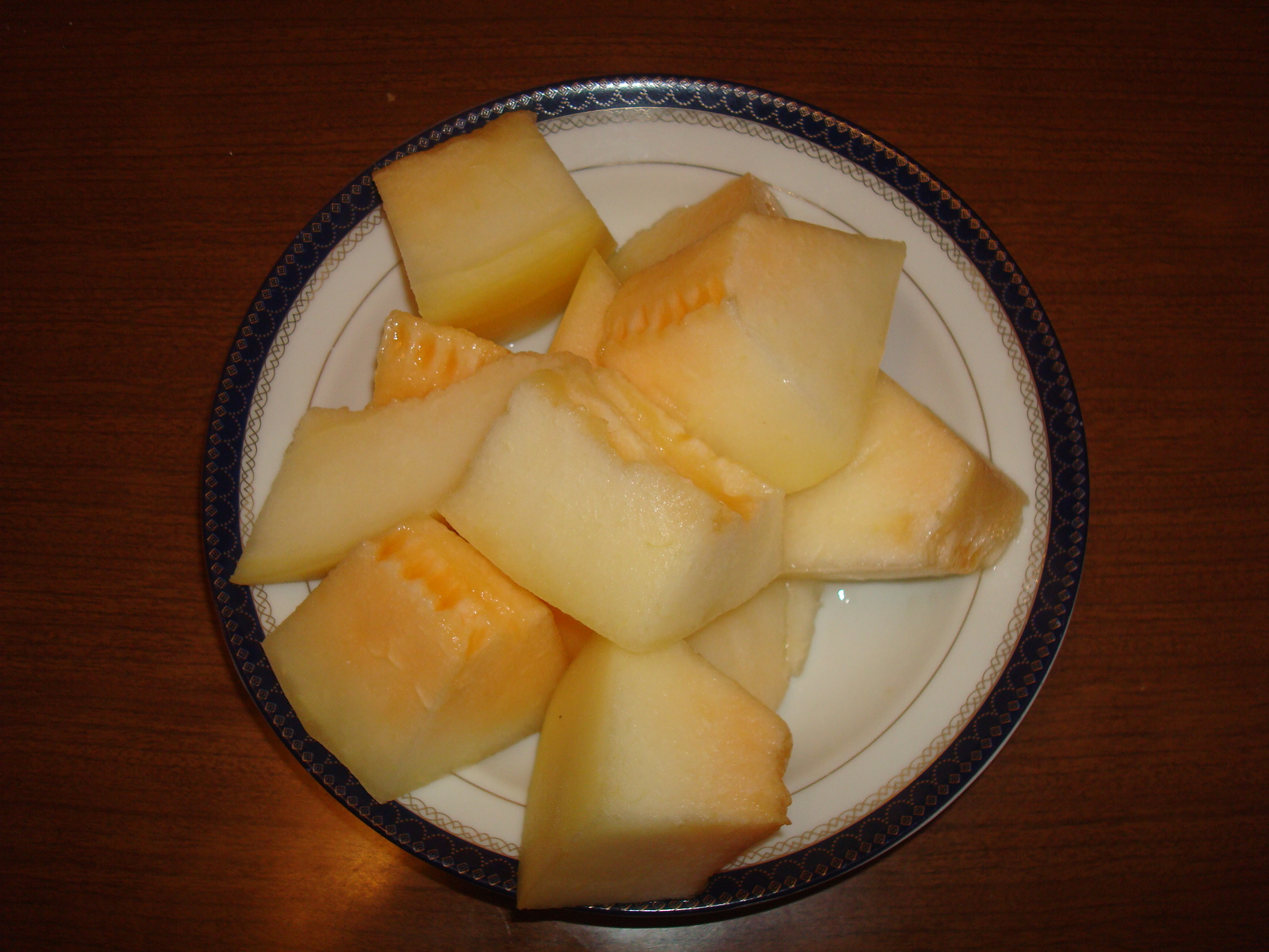 Peaces of Canary Melon in a Table